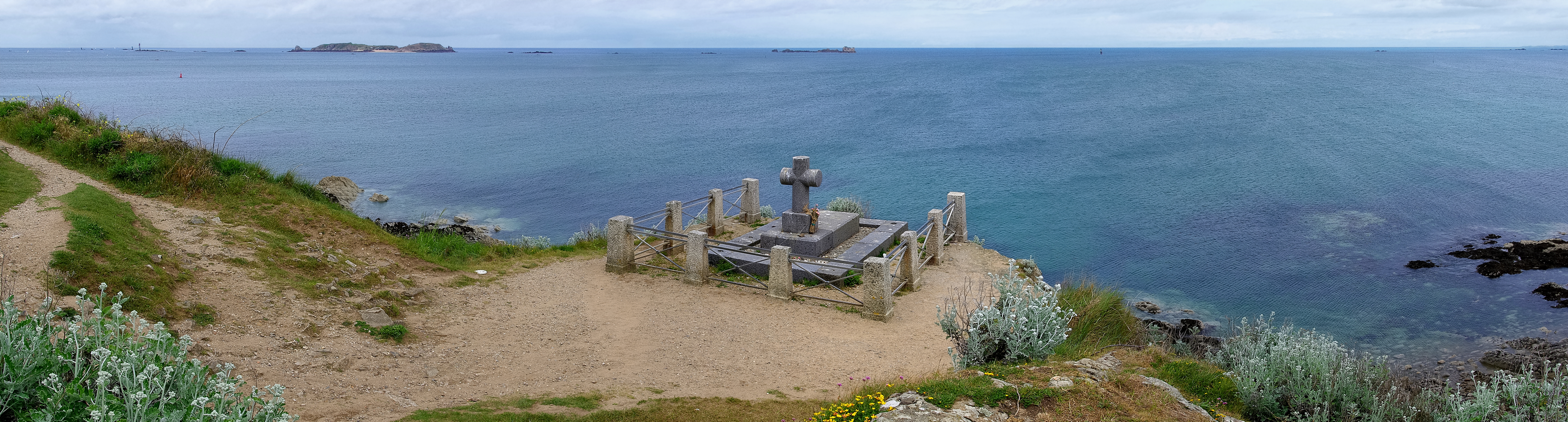 French writer François-René de Chateaubriand's grave, rocher du Grand Bé, Saint-Malo, Ille-et-Vilaine, France. .